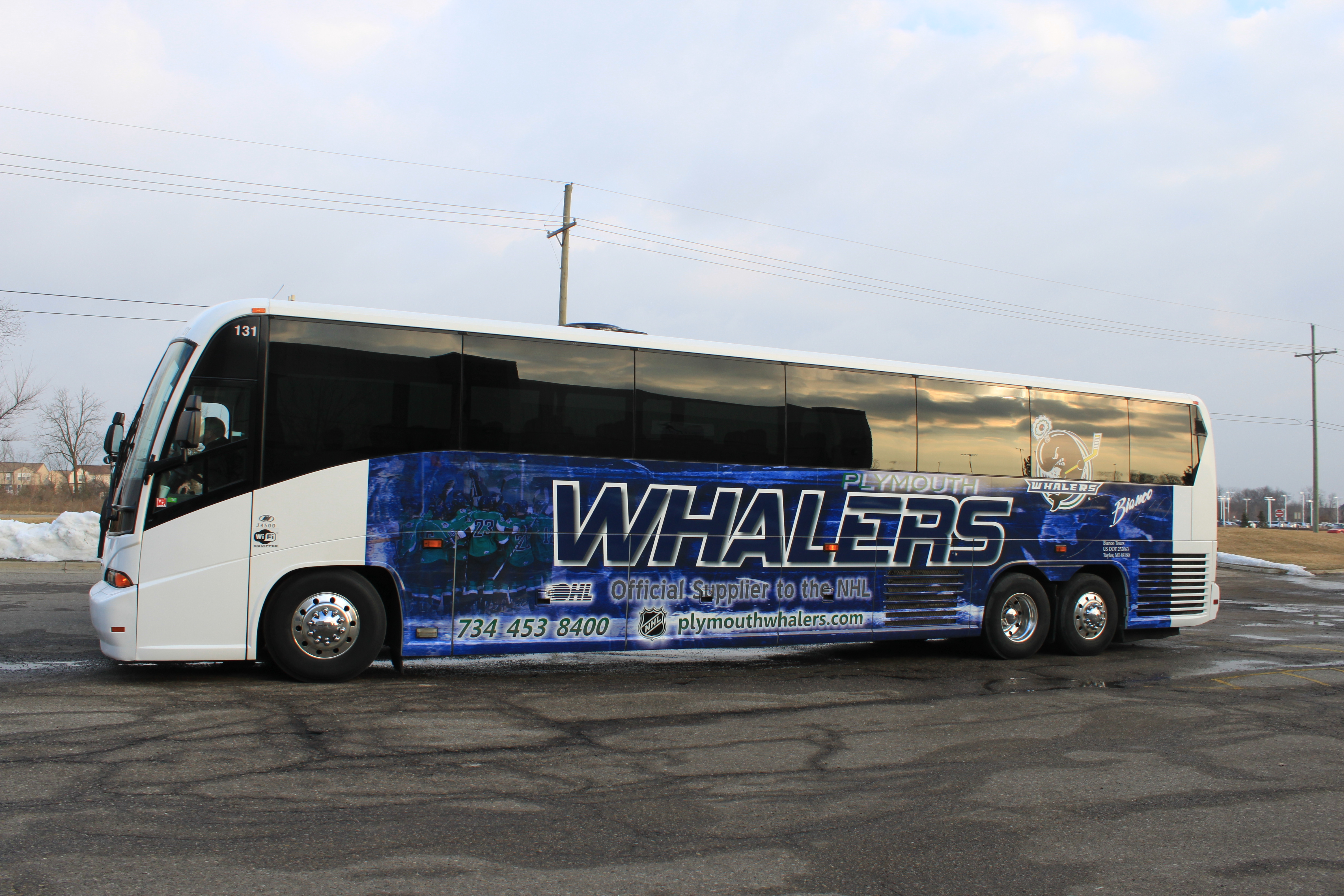 Plymouth Whalers hockey team bus, Arctic Edge Ice Arena, 46615 Michigan Avenue, Canton, Michigan.